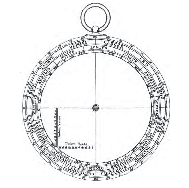 This is a representation of PLATE II of Chaucer's astrolabe